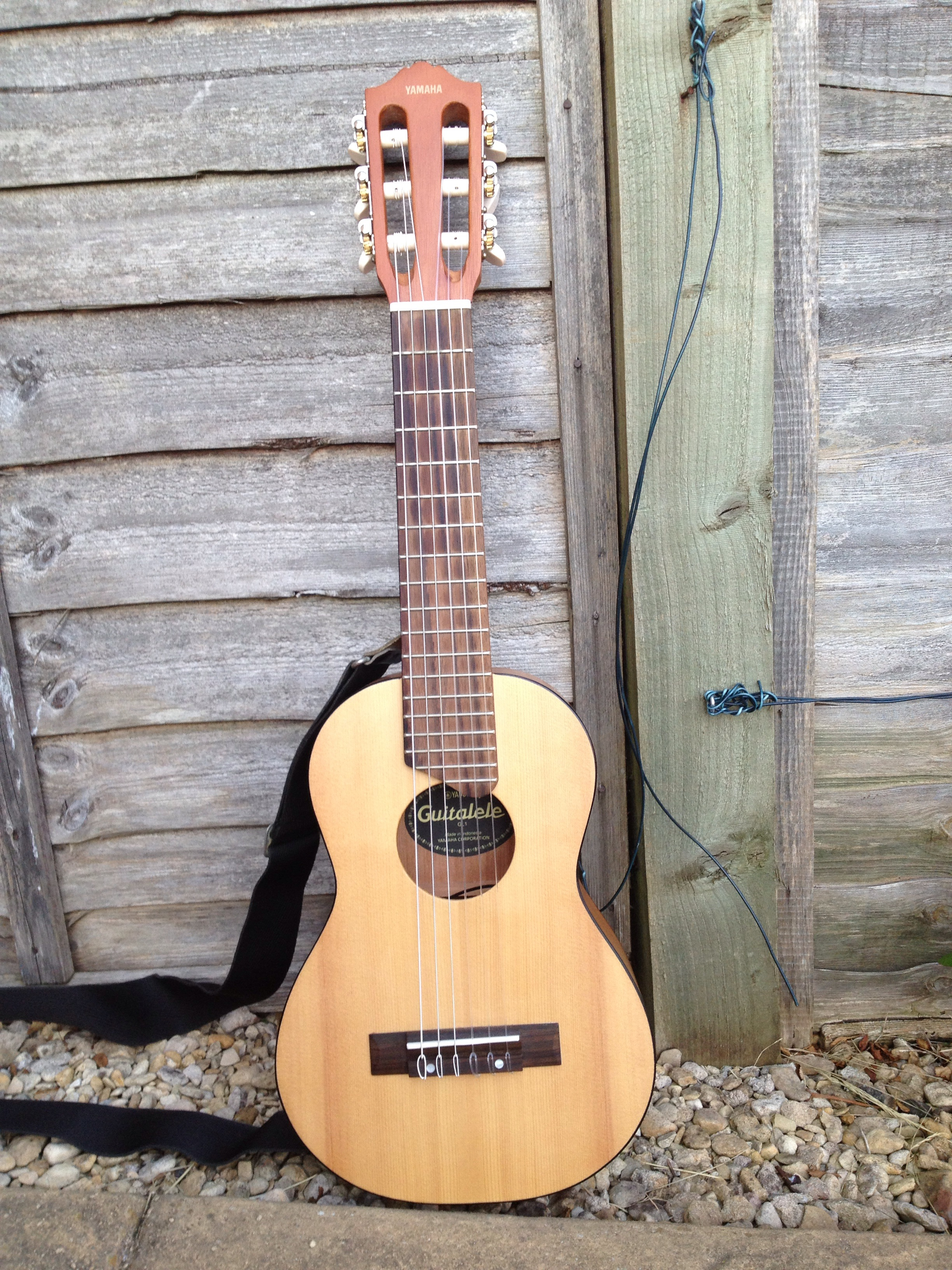 Yamaha GL-1 Guitalele - front view Since I acquired this in the summer of 2012, the Yamaha guitalele has become one of my favourite instruments - portable, robust (relatively-speaking), attractive-sounding and generally a great "go-to" instrument for songwriting, demo-recording and casual playing. Tuned ADGCEA (low to high), it's like a baby Spanish guitar tuned a fifth higher (like a "normal" guitar with a capo on the fifth fret), or alternatively, like a tenor ukulele with two additional bass strings (the A and D below the CGEA). I've had mine modified with a transducer pickup and an extra strap button behind the heel - Yamaha really ought to make an extra model available with those features...